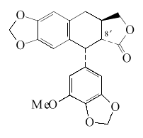 Austrobailignan 1 scheme